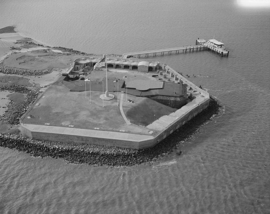 Fort Sumter National Monument, South Carolina, USA - aerial view from east.